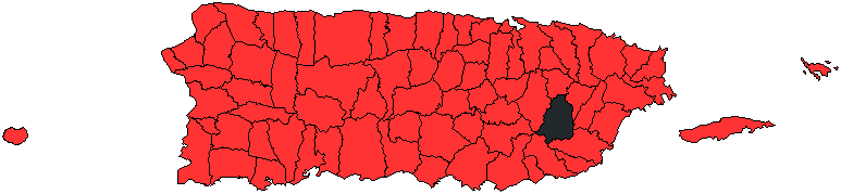 Puerto Rican general election, 1960 map.